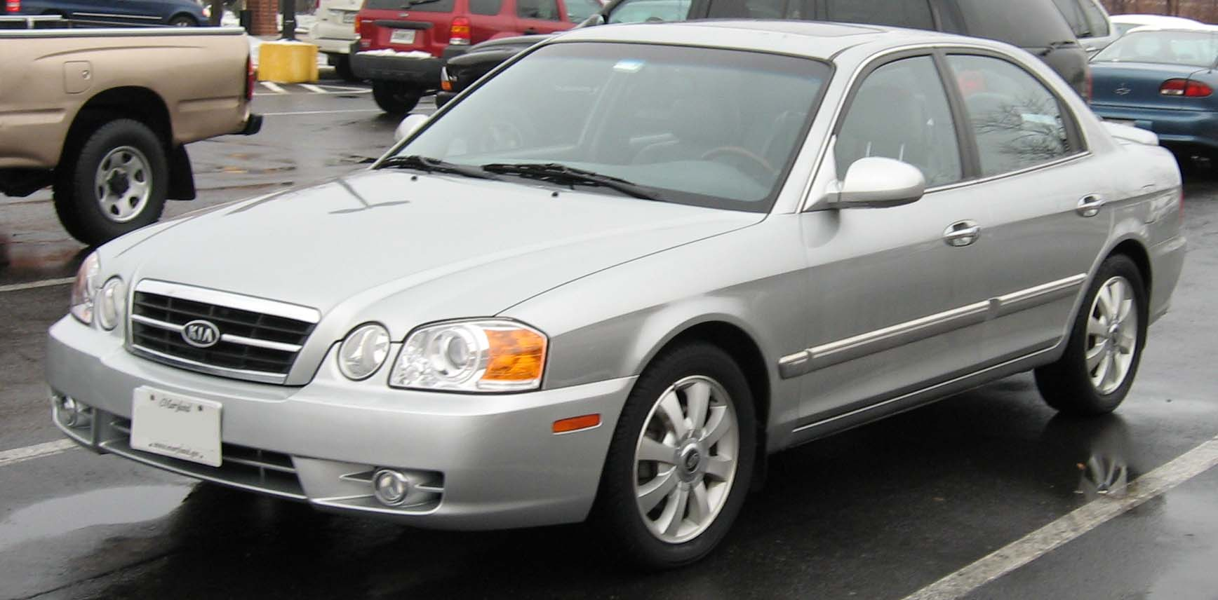 2004-2005 Kia Optima photographed in USA.